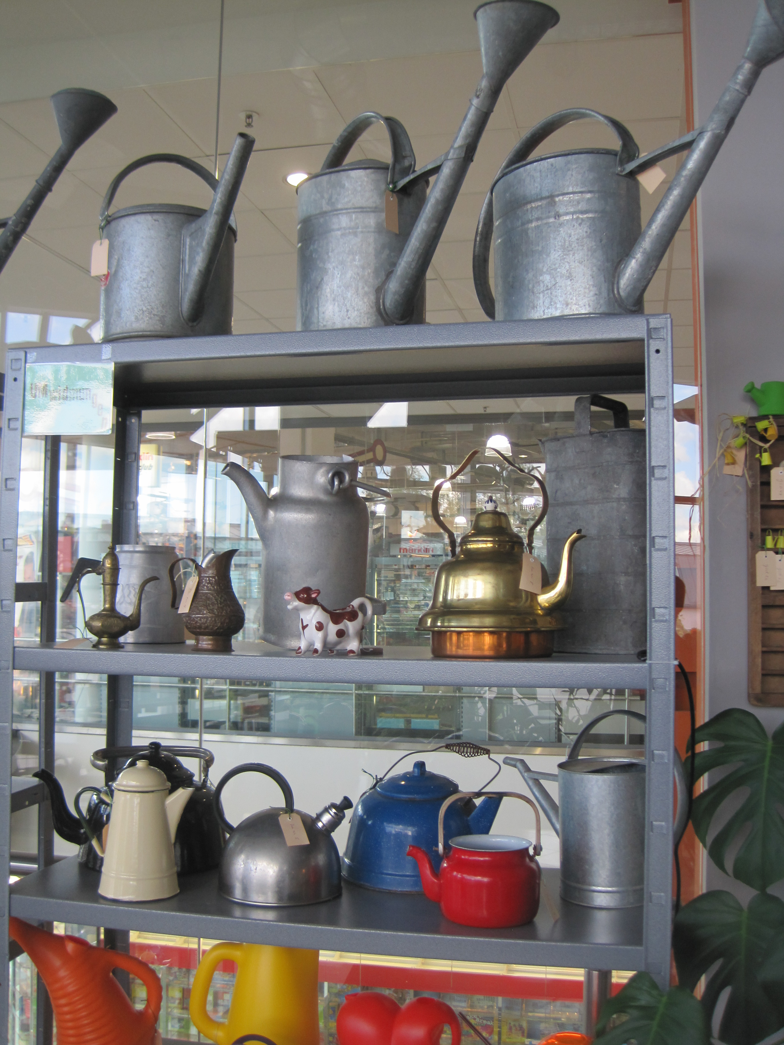 View into exhibition of Gießkannenmuseum (Watering can museum), Gießen, Germany check usage